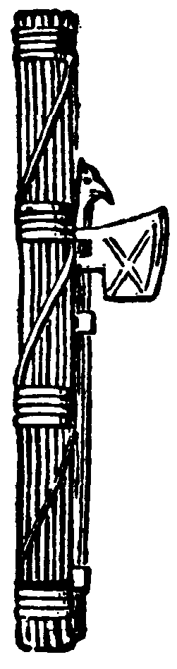 Fasces